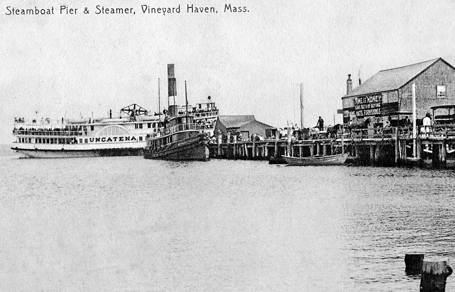 Paddlewheel steamer and ferry Uncatena at Union Wharf in Vineyard Haven, Massachusetts. Photo taken from the roof of Lane's Block (now Leslie' Drug Store). The sign says "Time is money. Save both by buying clothing, hats, furnishings...." (The rest is obscured.)